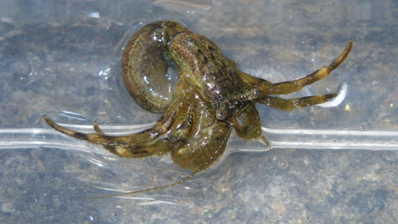 Pagurus minutus Hess, 1865